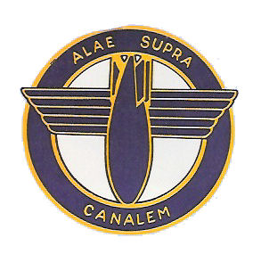 Distinctive Unit Insigne of the USAAF VI Bomber Command